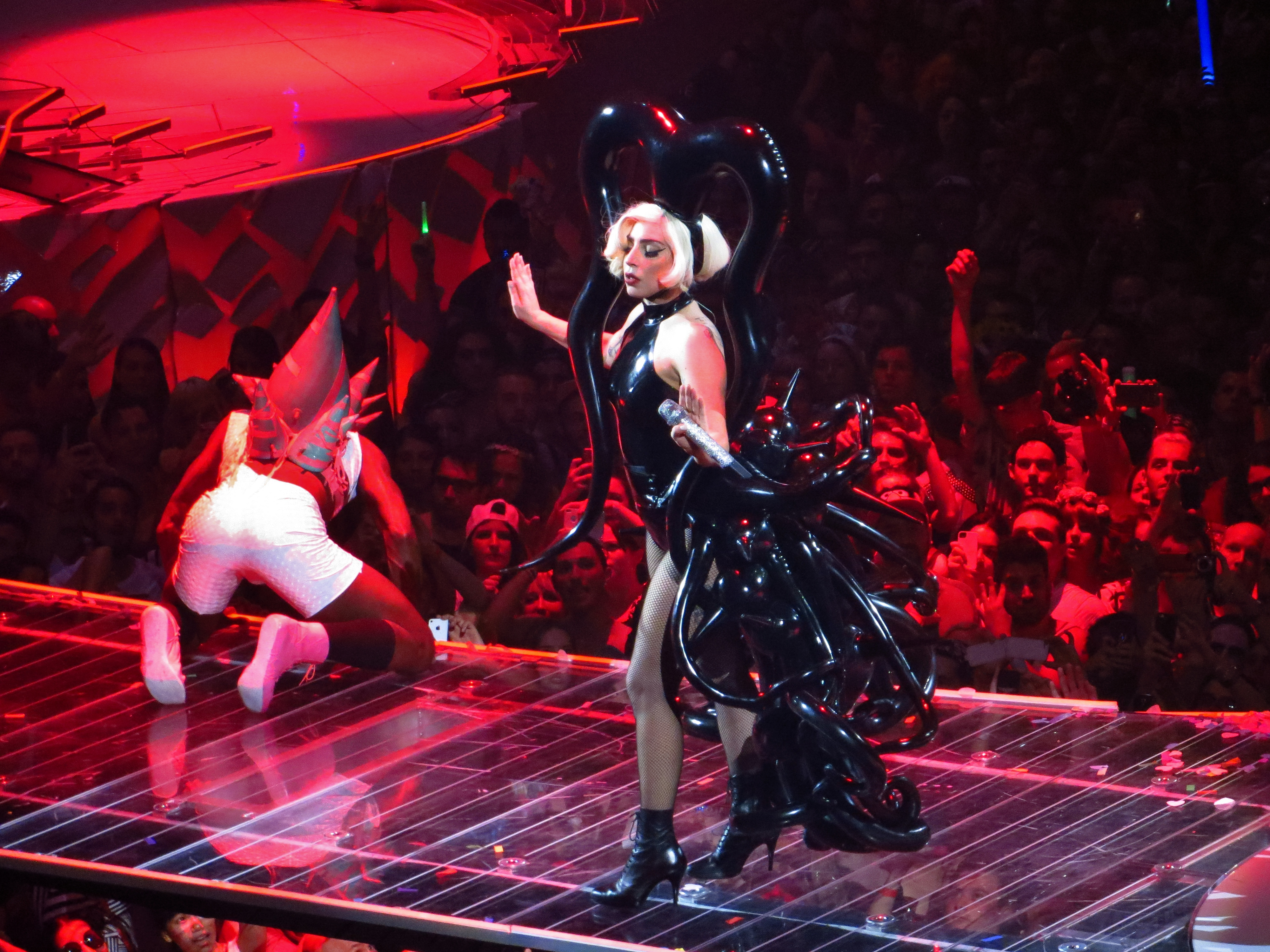 Lady Gaga, ARTPOP Ball Tour, Bell Center, Montréal, 2 July 2014 (48) Gaga performing on ArtRave: The Artpop Ball tour